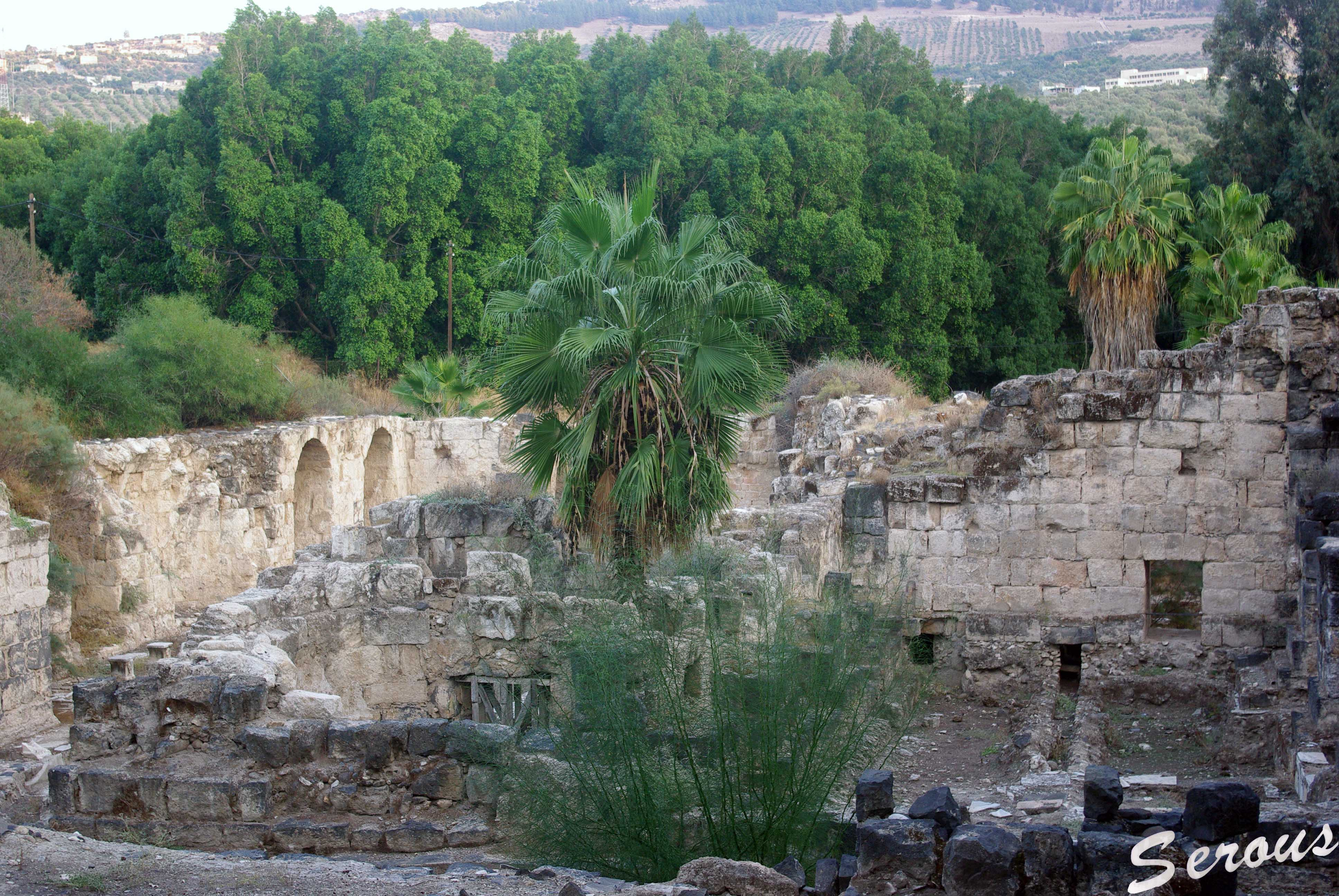 Hamat-Gader Ruins